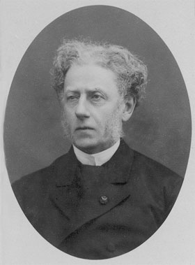 Photograph of Constantij Theodoor (Theo) baron (since 1882 count) Lynden van Sandenburg (1826 - 1885), was a Dutch Prime Minister from 1879 to 1883